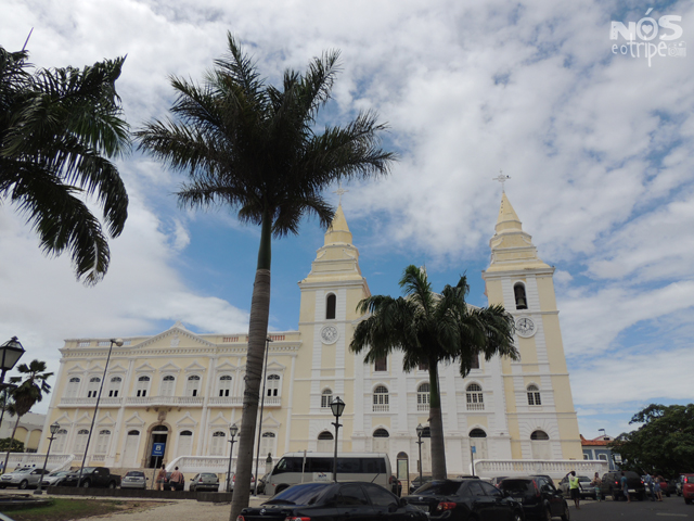 Centro Histórico de São Luís, Maranhão, Brasil